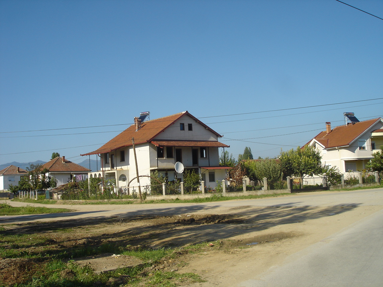 Village of Gradošorci near Strumica, Macedonia